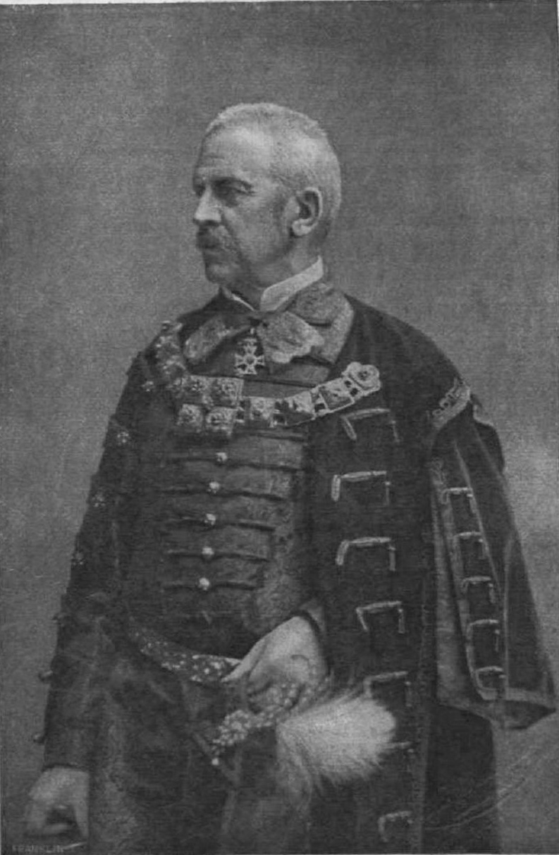 Albin Csáky